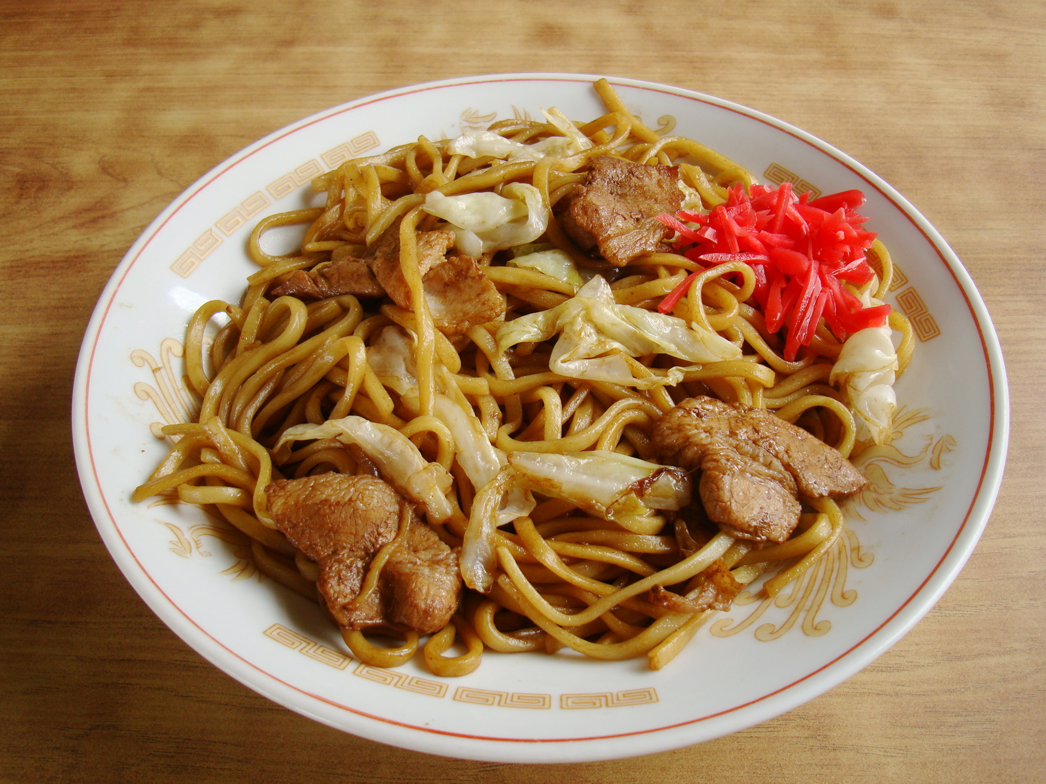 Kuroishi Yakisoba